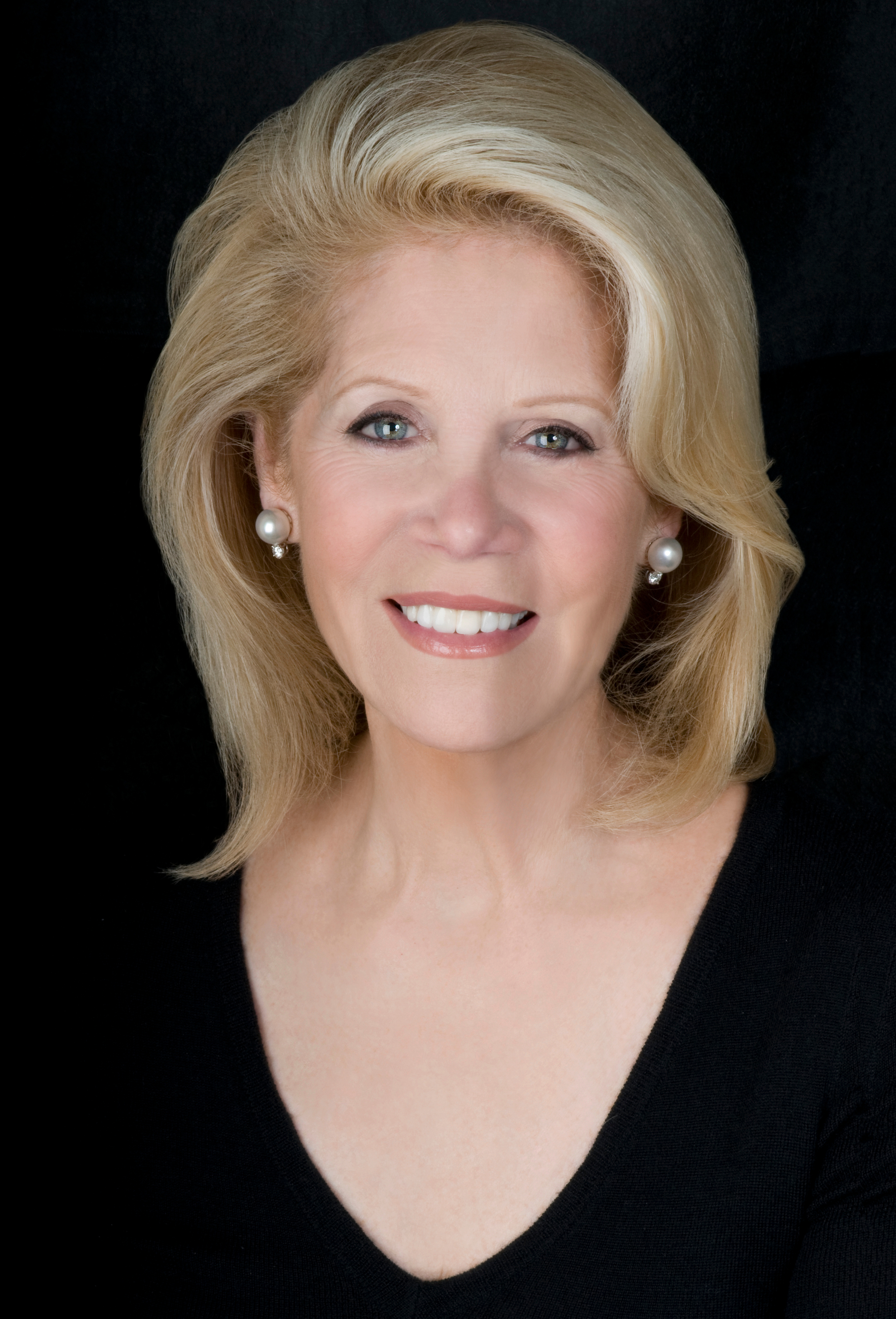 Daryl Roth Headshot